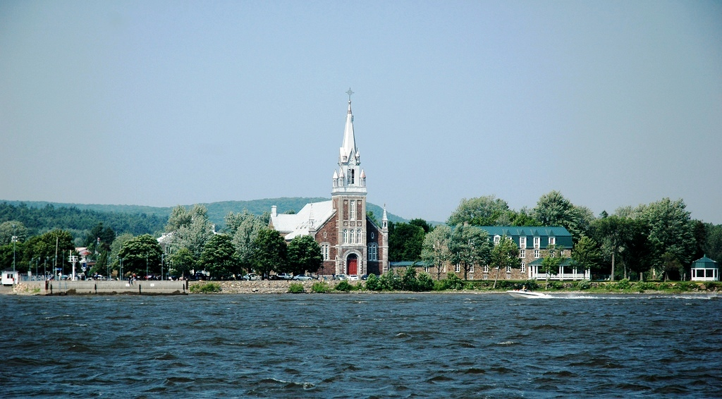 Oka Monastery in Quebec, Canada